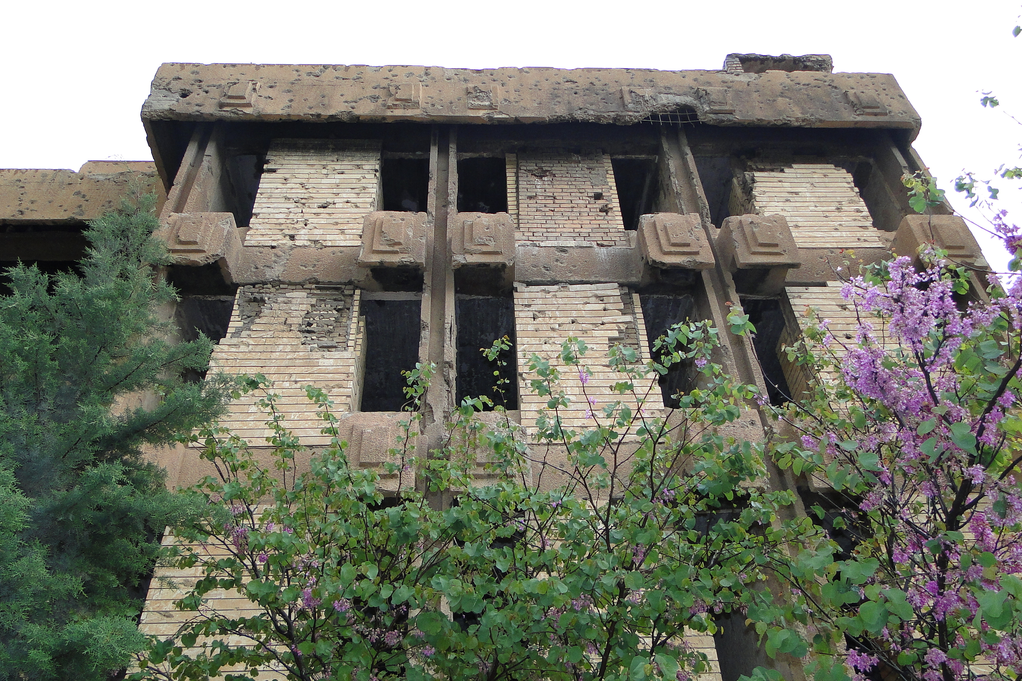 Facade of Amna Suraca-Red House - Saddam-Era Prison and Torture Center Destroyed in 1991 Uprising - Sulaiman-Suleimaniya - Kurdistan - Iraq